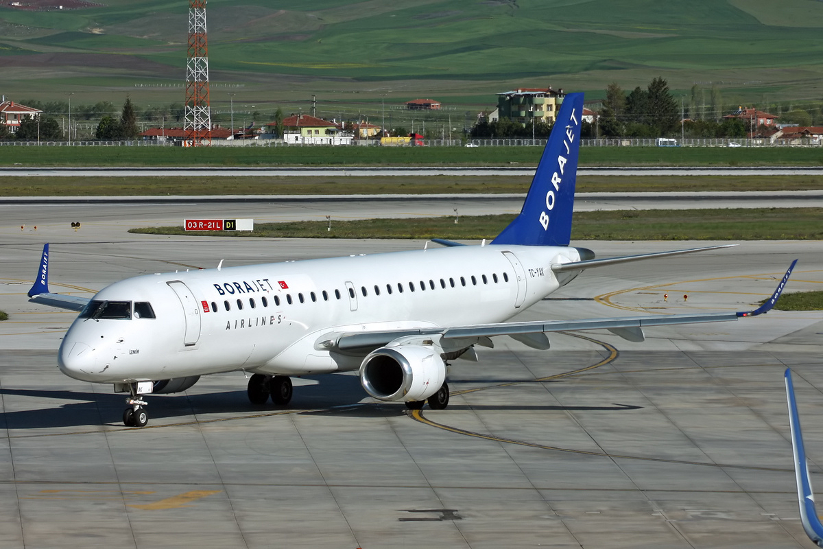 Borajet Embraer 190AR (ERJ-190-100IGW) at Ankara Airport